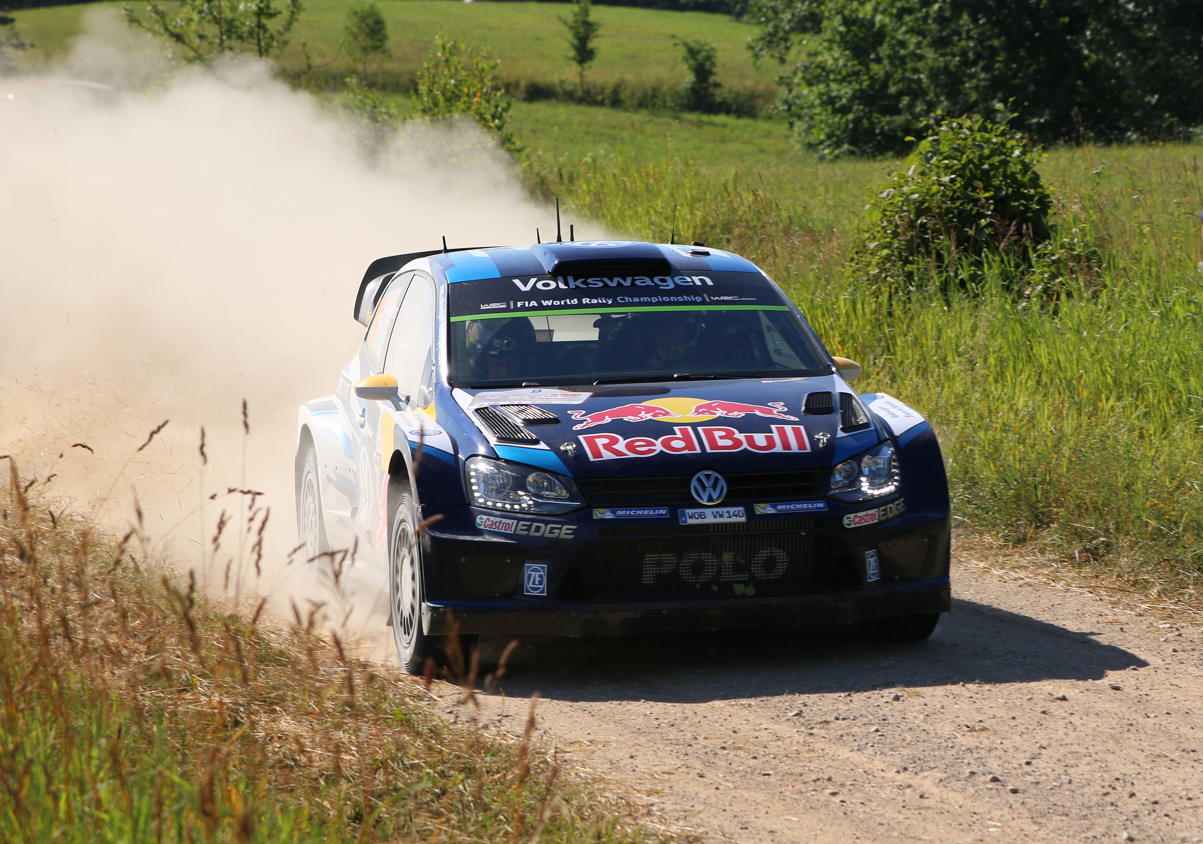 Andreas Mikkelsen, OS 10 Mazury, 72nd LOTOS Rally Poland